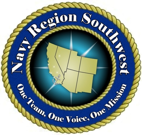 Insignia/logo/emblem of Commander, Navy Region Southwest